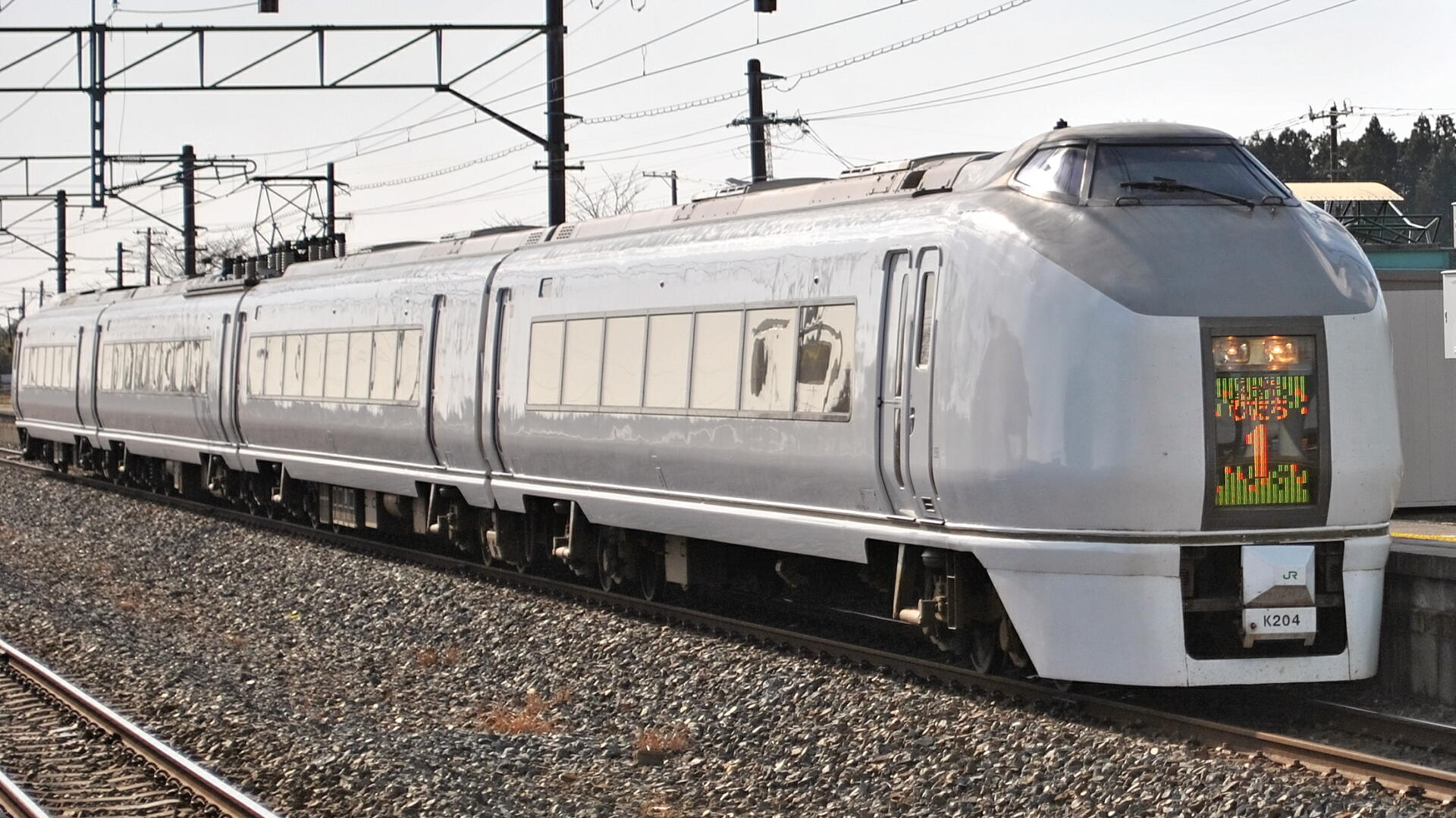 A JR East 651 series 4-car EMU on a Super Hitachi limited express service at Iwaki-Ota Station on the Joban Line